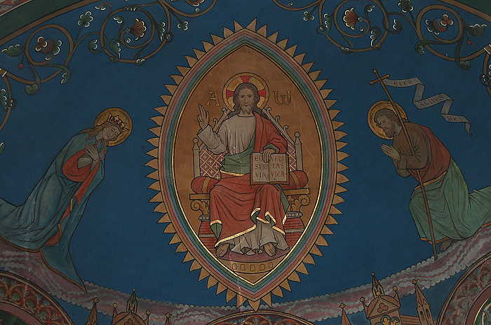 Painting by Matthias Goebbels in St. Briktius church in Oekoven-Rommerskirchen, Germany